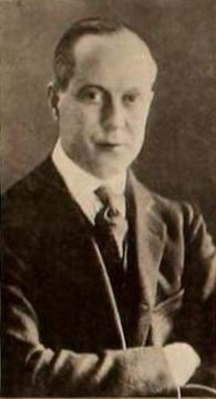 American film producer William LeBaron, then working as a screenwriter for Cosmopolitan Films, on page 3486 of the April 17, 1920 Motion Picture News.